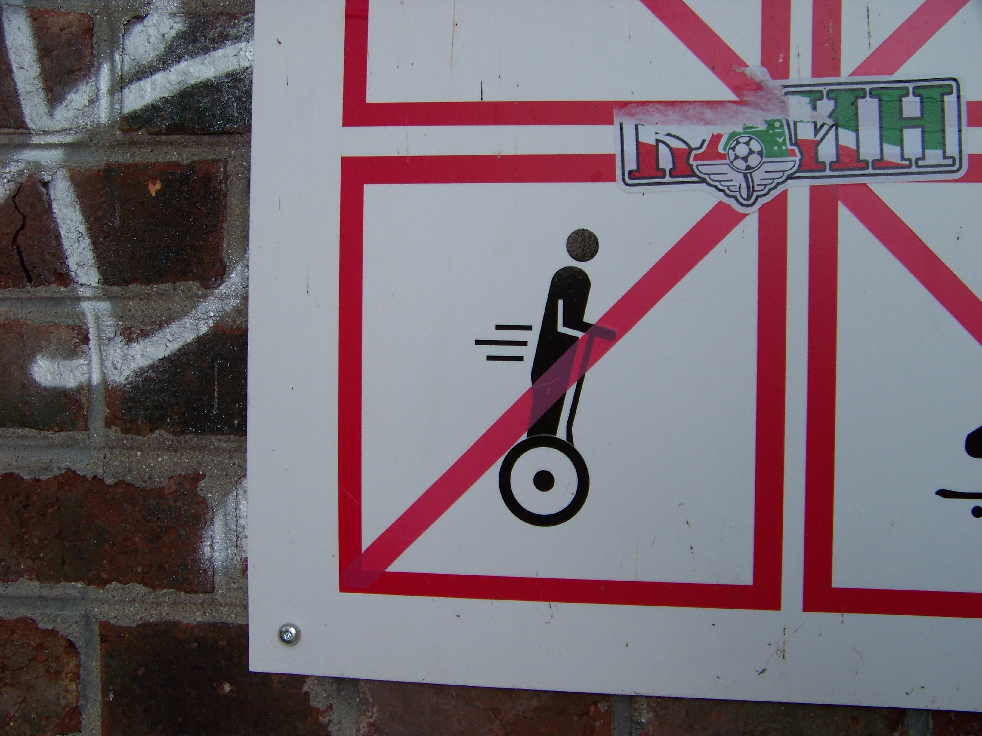 Prague-Malá Strana, Czech Republic. Tyrš House.Segway PT forbidden sign.